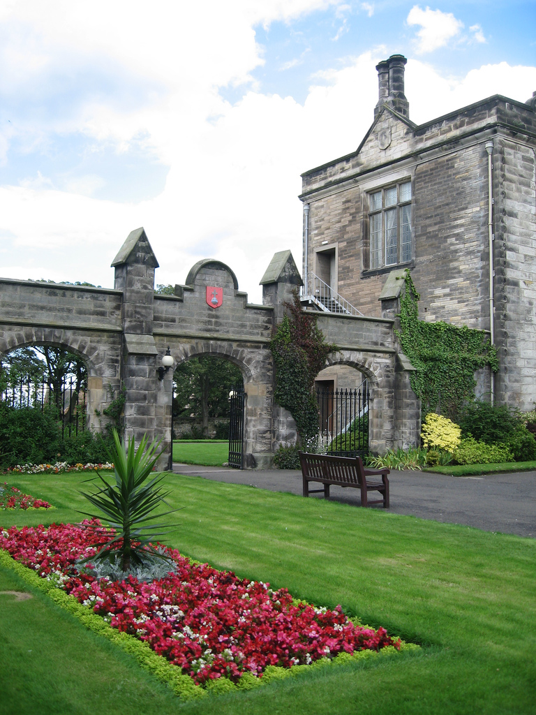 Photo of the courtyard at the University of St Andrews.